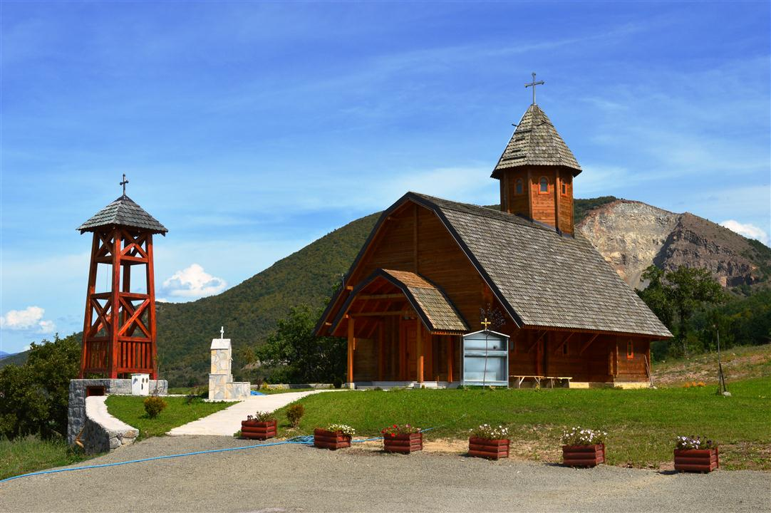 Raska Municipality - Kućanе